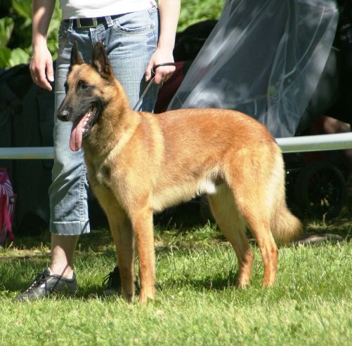 Belgian Shepherd, variation Malinois.